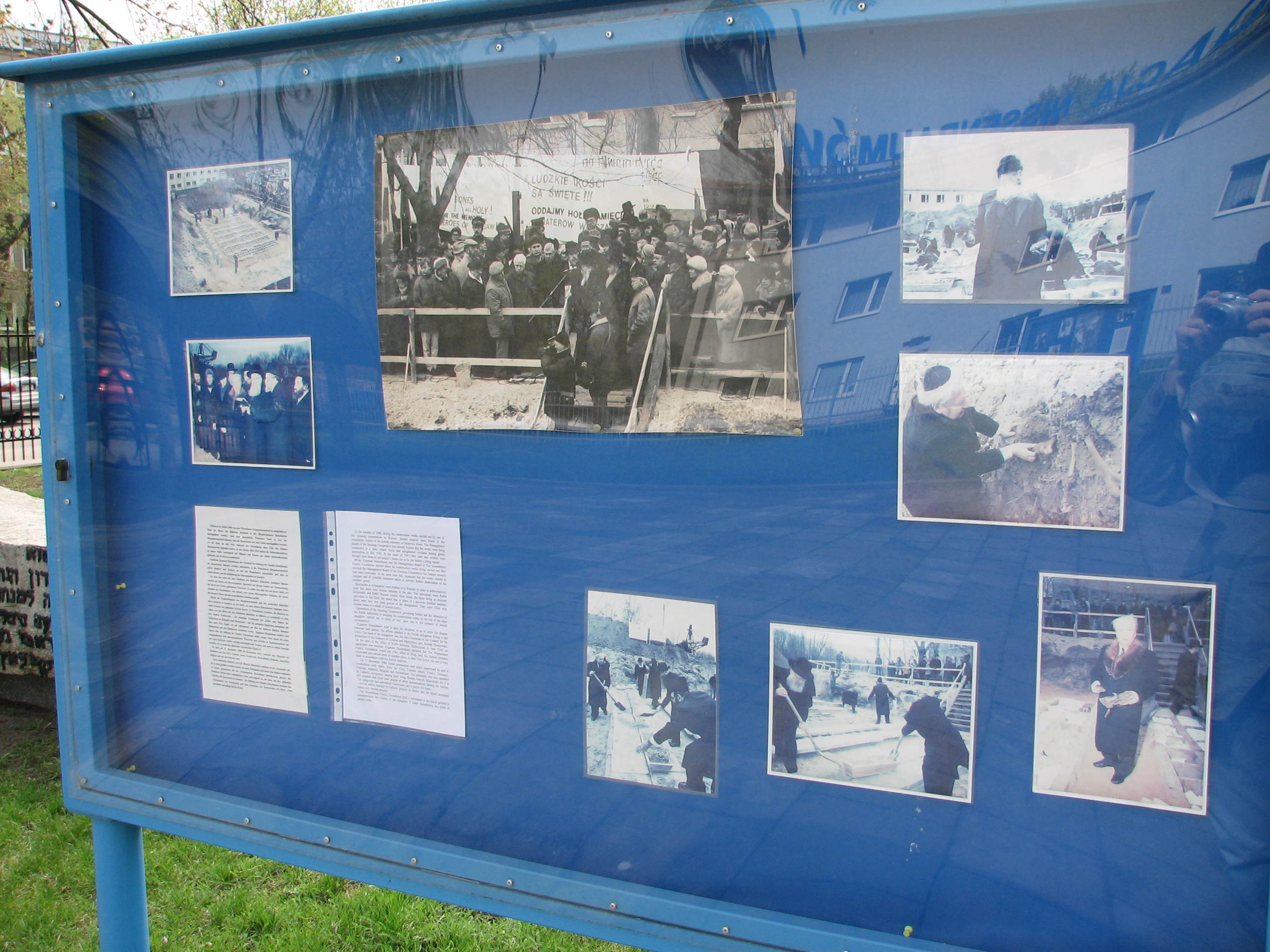 Monument of Jews and Poles Common Martyrdom in Warsaw, Gibalskiego street 21